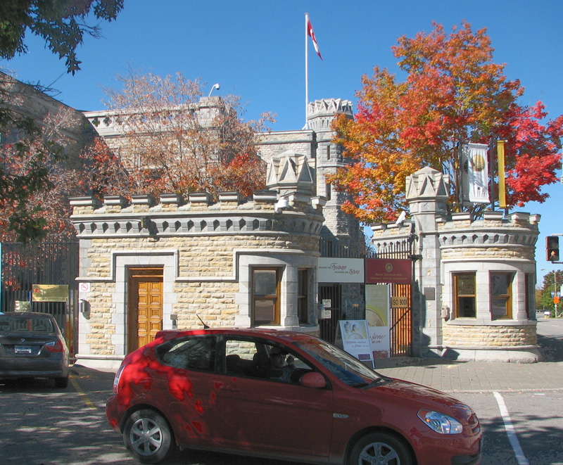 Ian Bennett's BMW can be seen parked to the left of the photo.